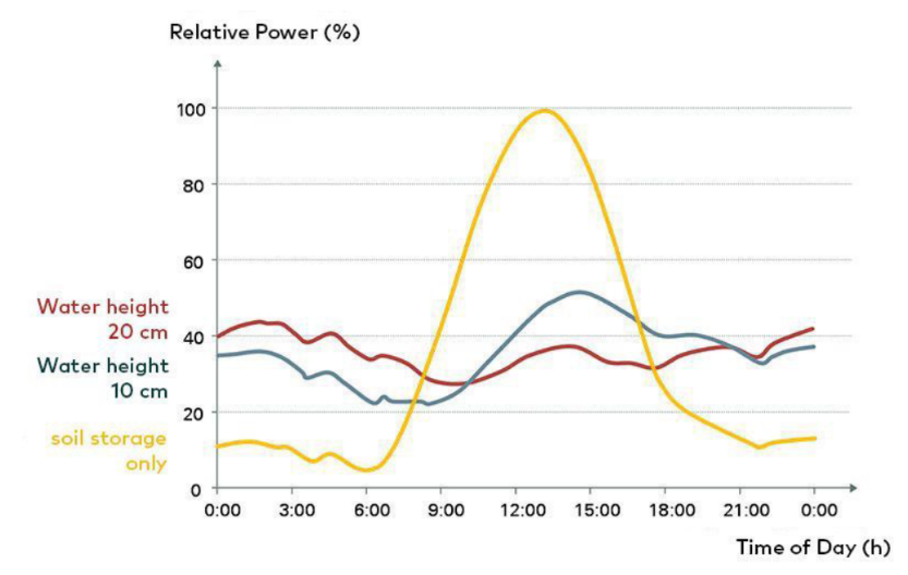 from